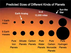 Comparison of sizes of planets of different composition